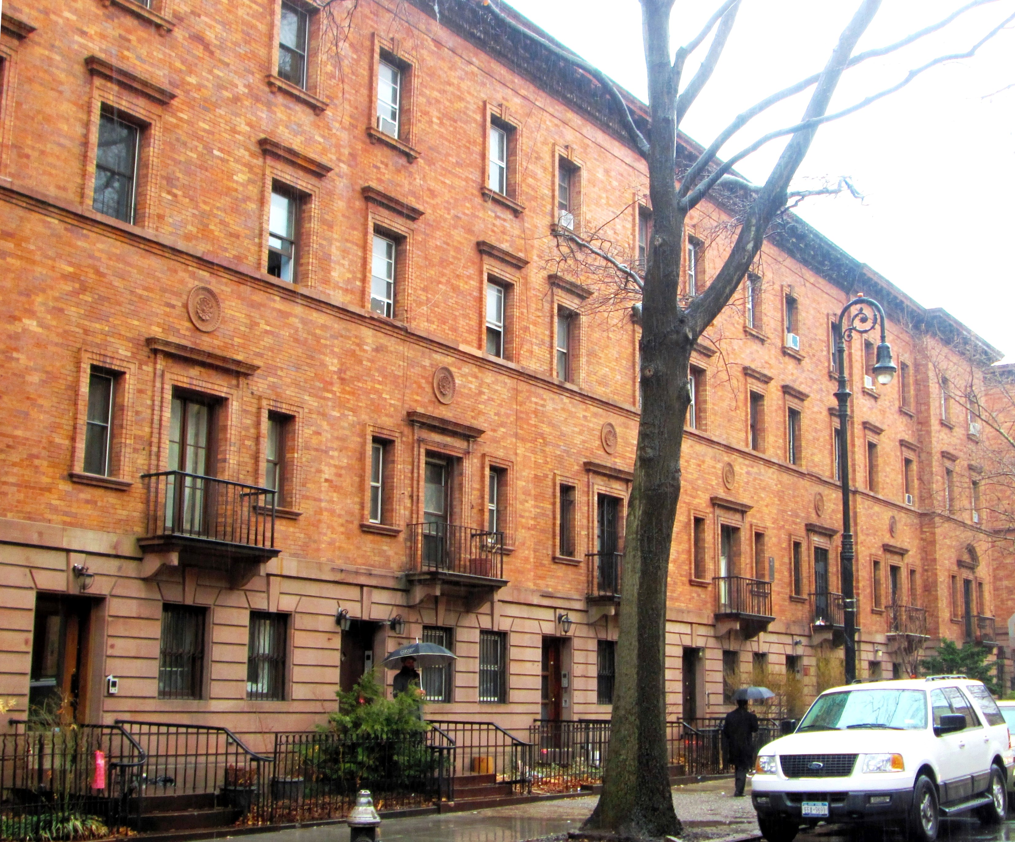 249 (right) - 265 (left) West 139th Street The St. Nicholas Historic District, known colloquially as "Striver's Row", is located on both sides of West 138th and West 139th Streets between Adam Clayton Powell Jr. Boulevard (Seventh Avenue) and Frederick Douglass Boulevard (Eighth Avenue) in the Harlem neighborhood of Manhattan, New York City. It consists of four sets of residential rowhouses designed by noted architects and built in 1891-93 by developer David H. King, Jr.: the red brick and brownstone buildings on the south side of West 138th Street and at 2350-2354 Adam Clayton Powell Jr. Boulevard were designed by James Brown Lord in the Georgian Revival style; the yellow brick and white limestone with terra cotta trim buildings on the north side of 138th and on the south side of 139th Street and at 2360-2378 Adam Clayton Powell Jr. Boulevard were designed in the Colonial Revival style by Bruce Price and Clarence S. Luce; the dark brick, brownstone and terra cotta buildings on the north side of 139th Street and at 2380 Adam Clayton Powell Jr. Boulevard were designed in the Italian Renaissance Revival style by Stanford White of the firm McKim, Mead & White. (Sources: Guide to NYC Landmarks (4th ed.) and AIA Guide to NYC (5th ed.))